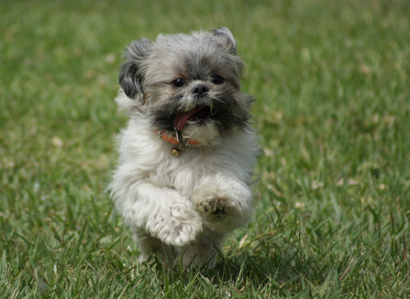 My little female Shih tzu dog running